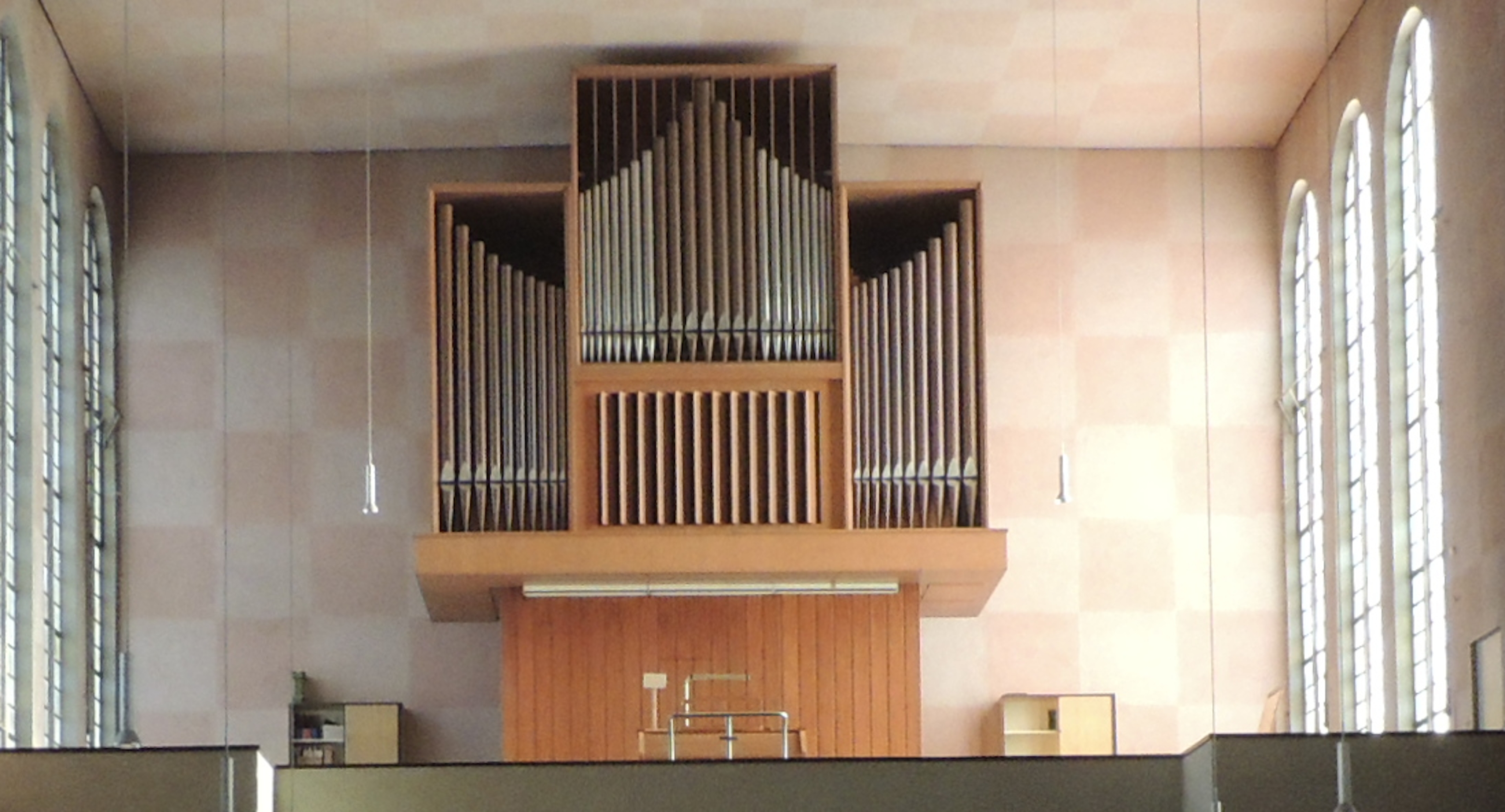 Organ on the gallery of the Holy Cross Church in Frankfurt am Main-Bornheim, built 1964 by Gebr. Späth Orgelbau, renovated 2019 by Freiburger Orgelbau